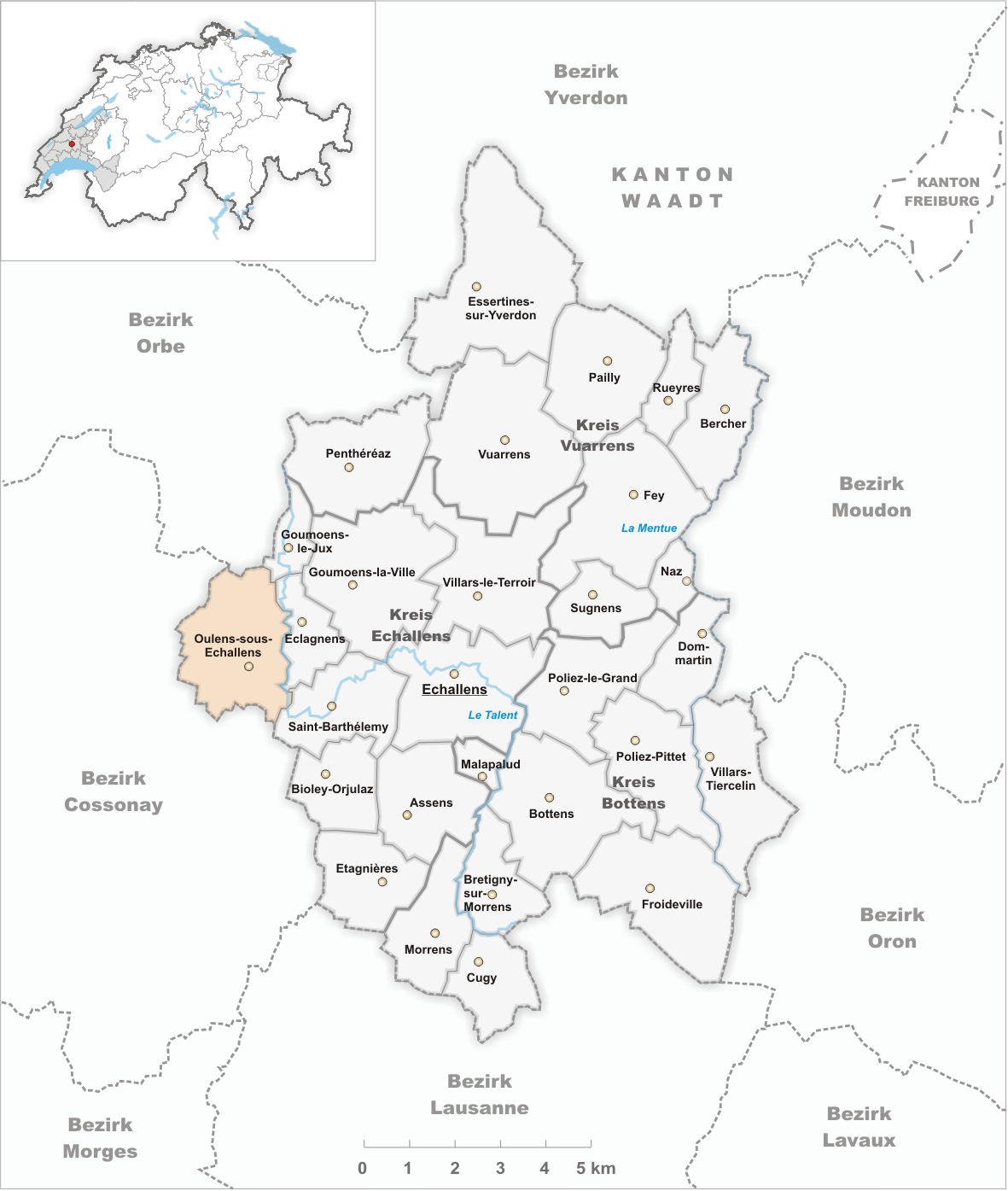 Municipality Oulens-sous-Echallens